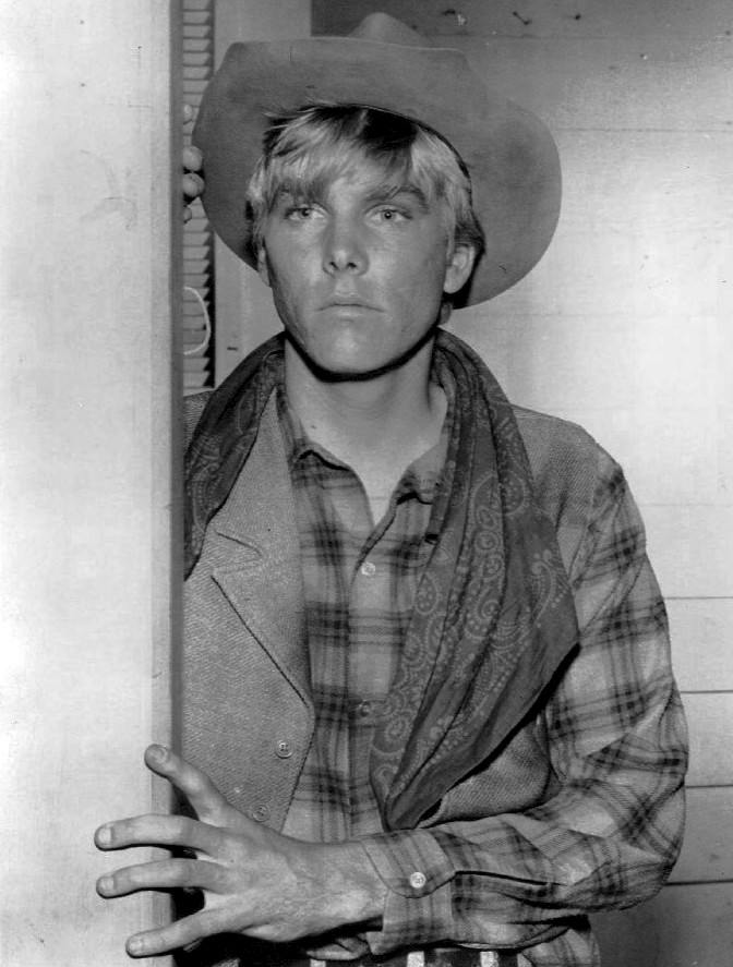 Photo of actor/screenwriter Bill Lancaster from a guest appearance on the television program The Big Valley. Lancaster was the son of actor Burt Lancaster.